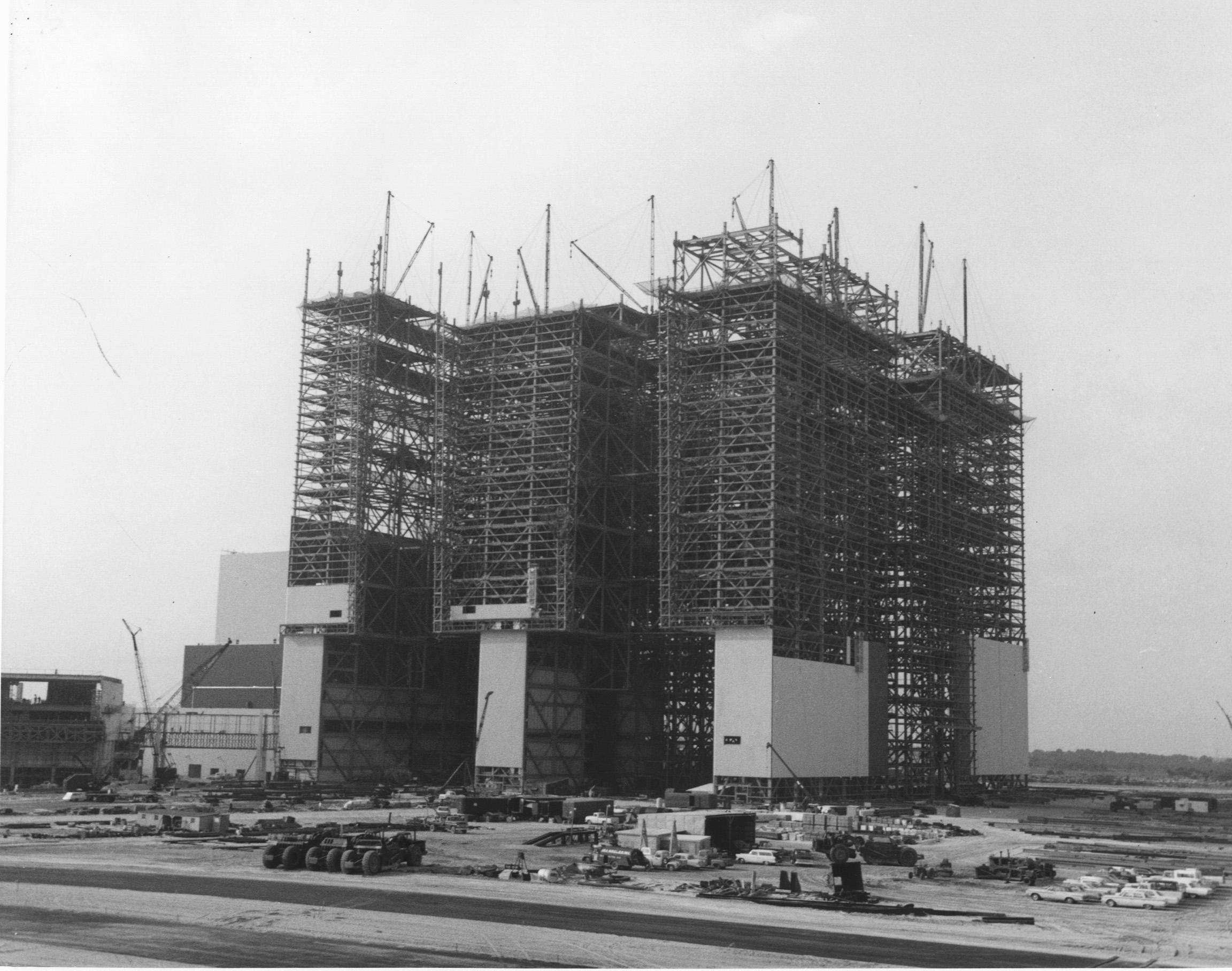 Vehicle Assembly Building under construction.